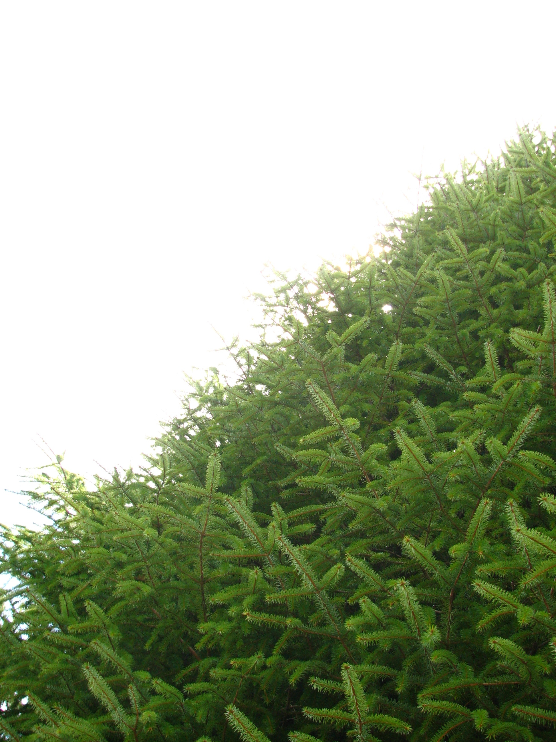 Picea morrisonicola, Alishan, Taiwan, 23°29'54"N 120°46'24"E, 1900m altitude.